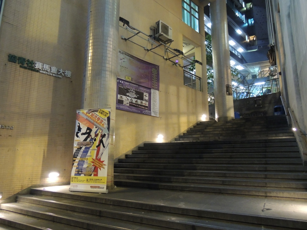 Youth Outreach JC Building